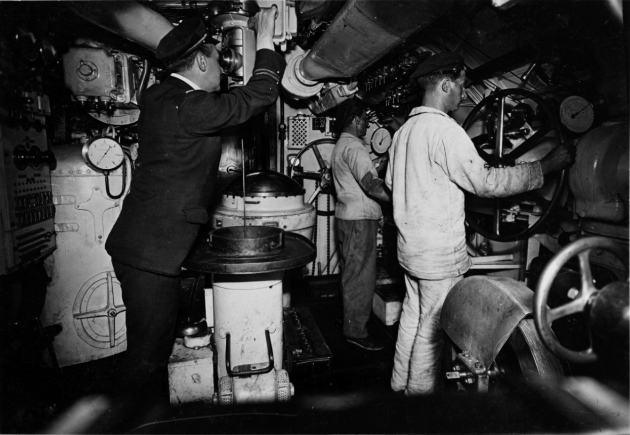 An interior view of the control room of the French submarine Andromaqe taken at Cherbourg, France